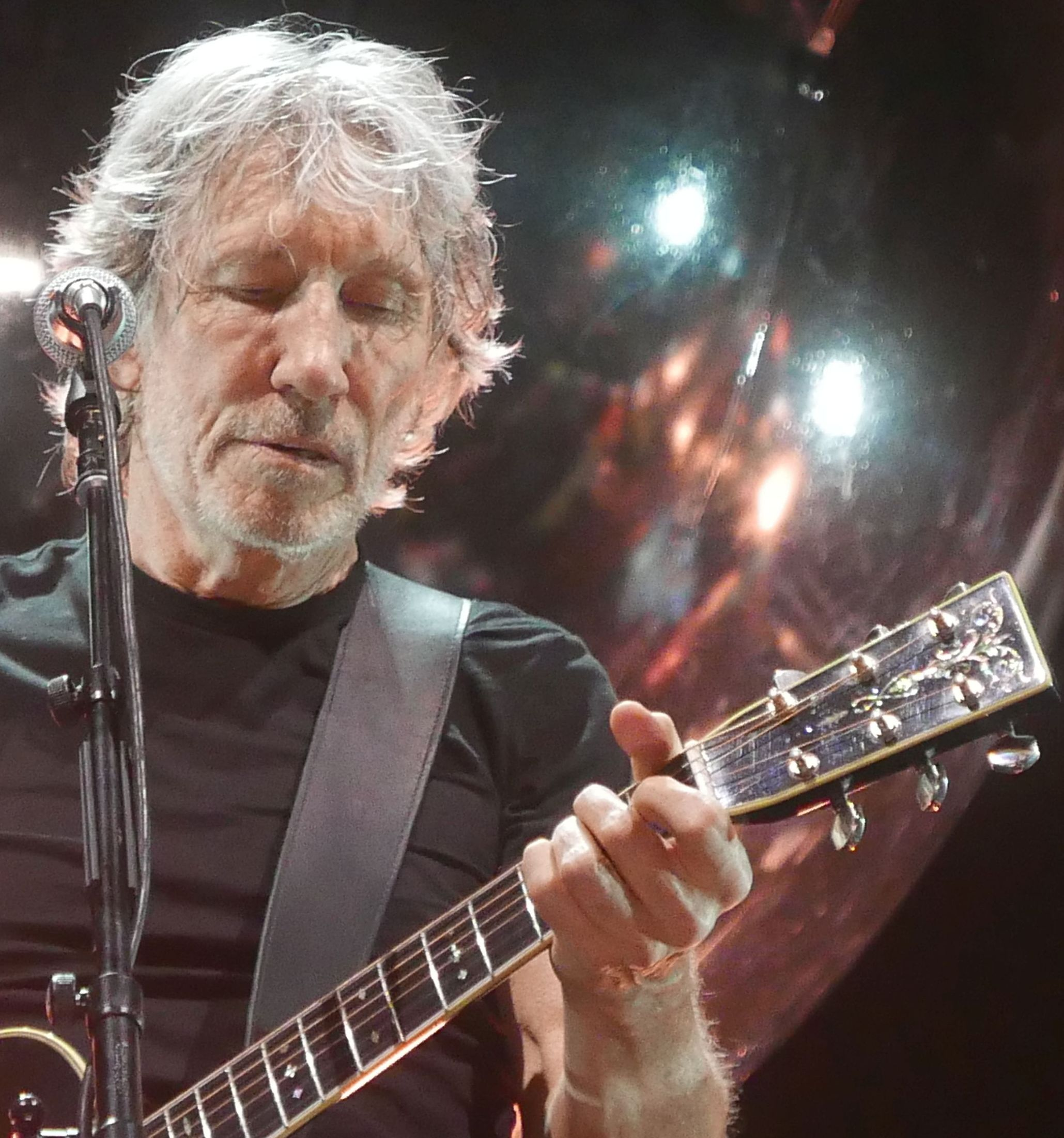 Roger Waters performing in San Jose, 2017-06-07.